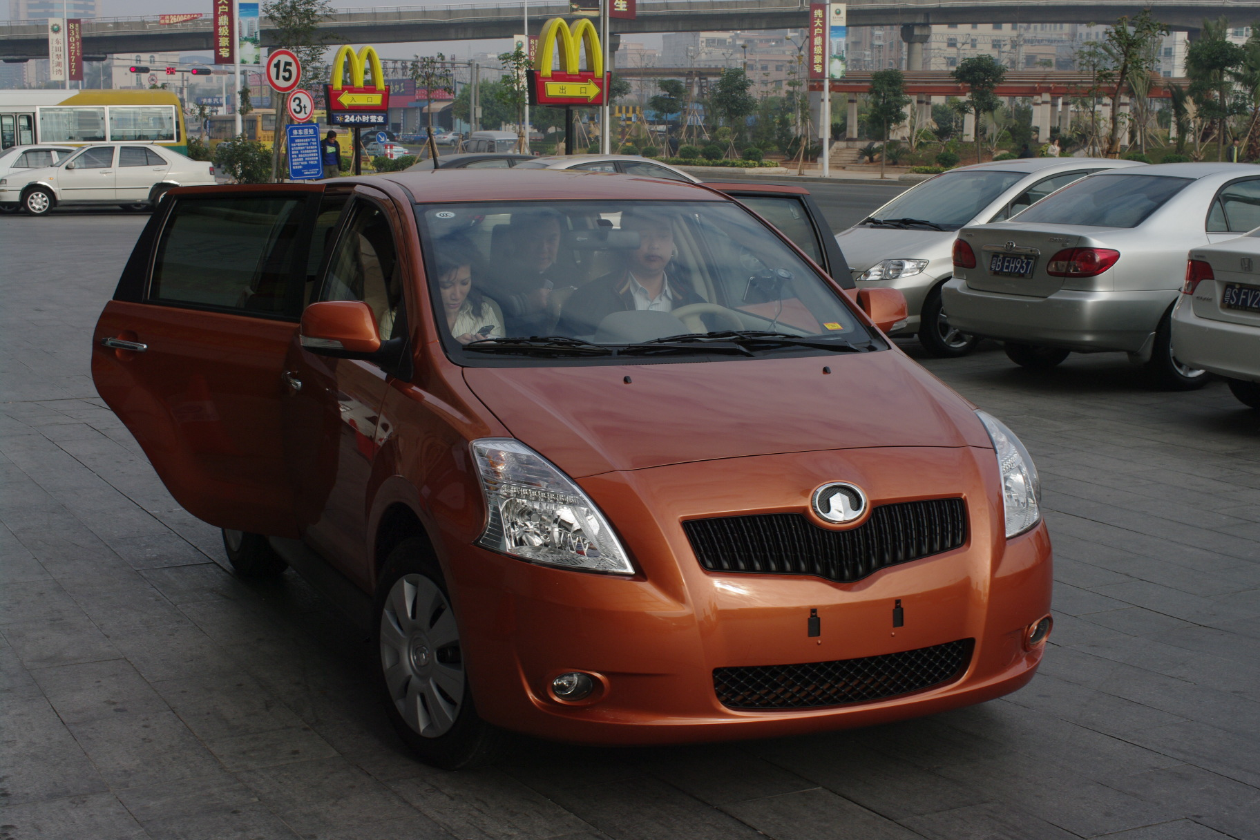 Great Wall Motors Florid